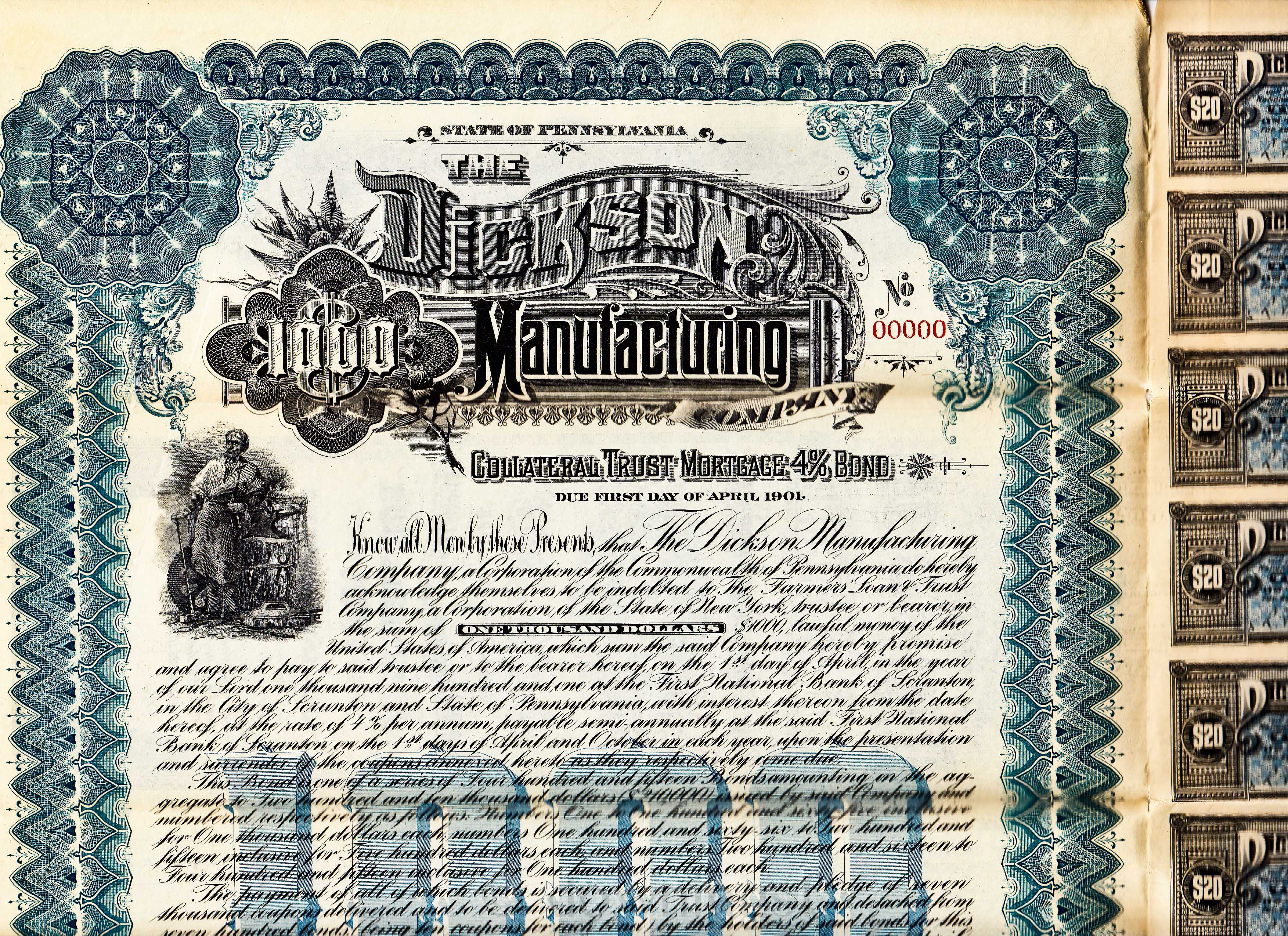 1896 Dickson Manufacturing Company Bond Specimen